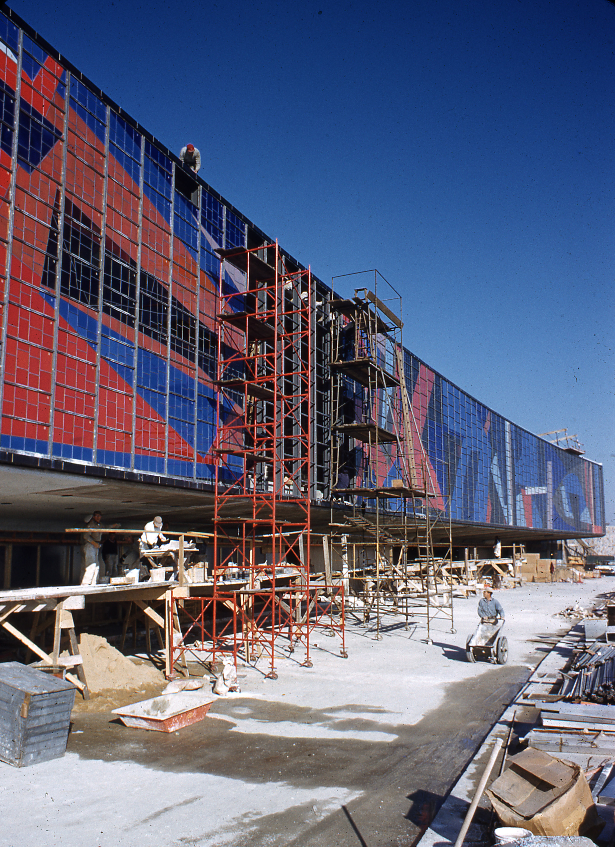 Installation at the new terminal.